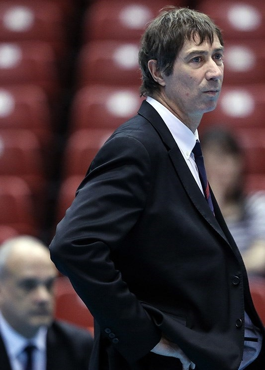 Laurent Tillie, France national volleyball team's coach